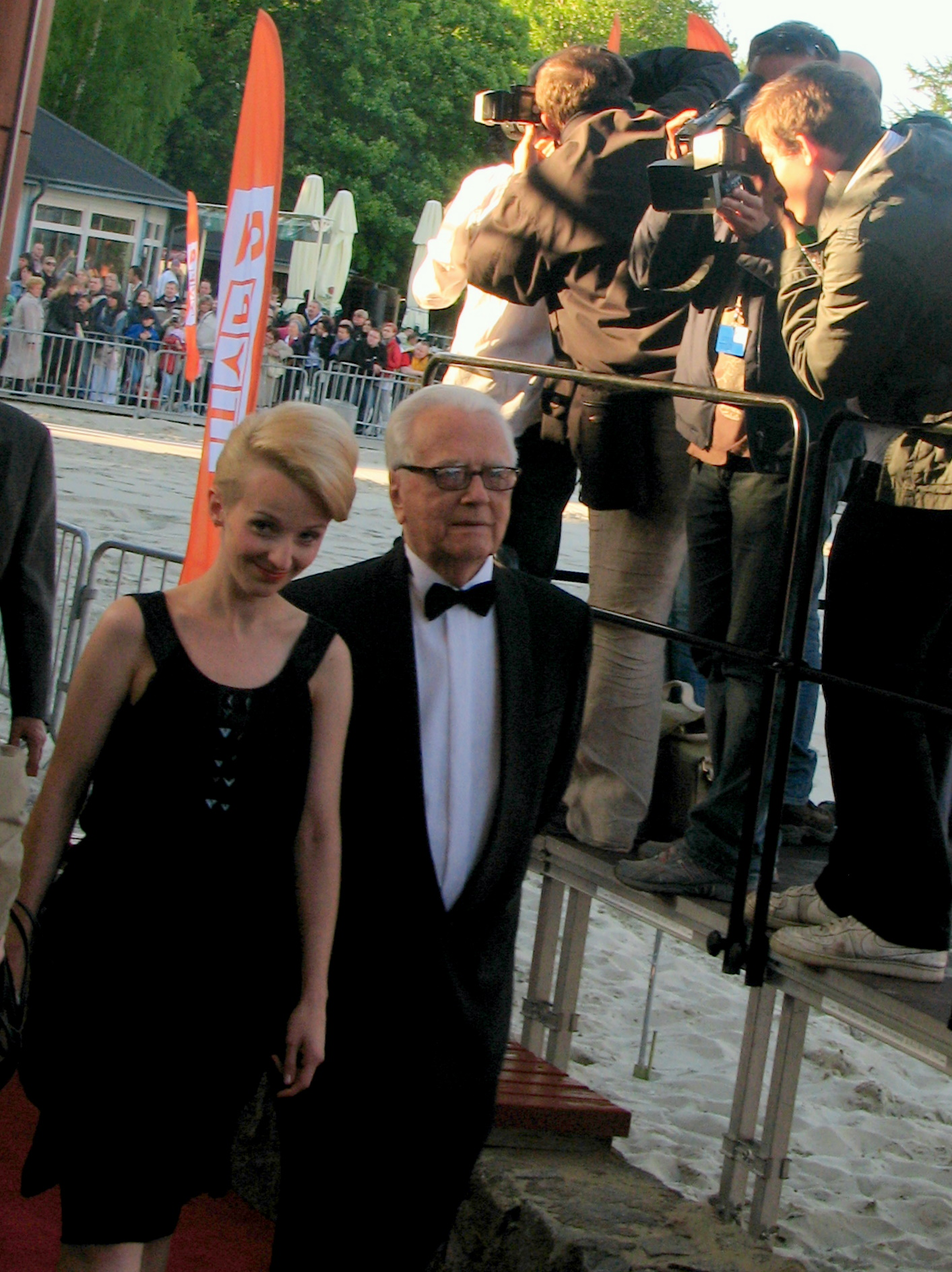 Andrzej Łapicki with own wife Kamila at closing gala of the XXXV Polish Film Festival in Gdynia 2010. The tent was removed after the festival.